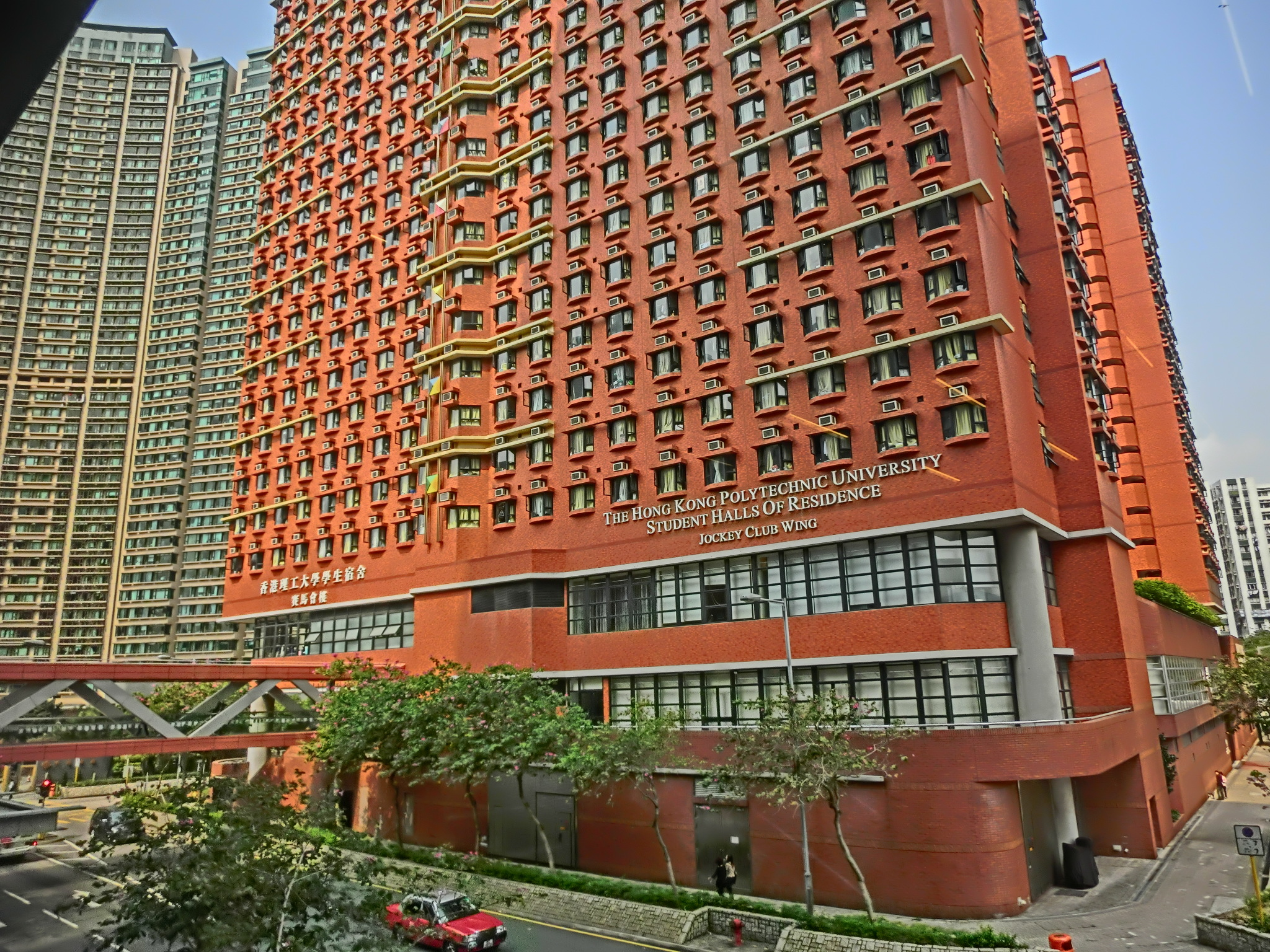 香港理工大學 香港專上學院, Hong Kong Community College, No.8 Hung Lok Road, Hung Hom Bay, Hong Kong